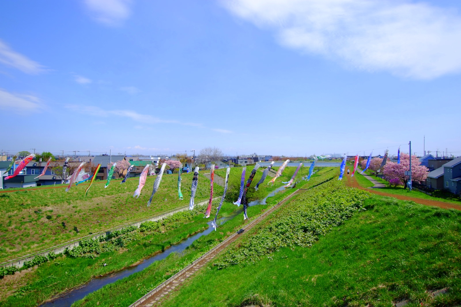 軽川の桜づつみを泳ぐ鯉のぼり (carp-shaped streamer swimming in the Garu River)